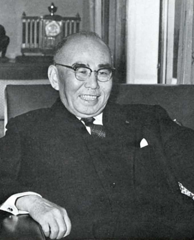 This is when Tanzan Ishibashi was appointed Prime Minister of Japan after the war (December 1956). Courtesy of the Ishibashi Tanzan Memorial Foundation